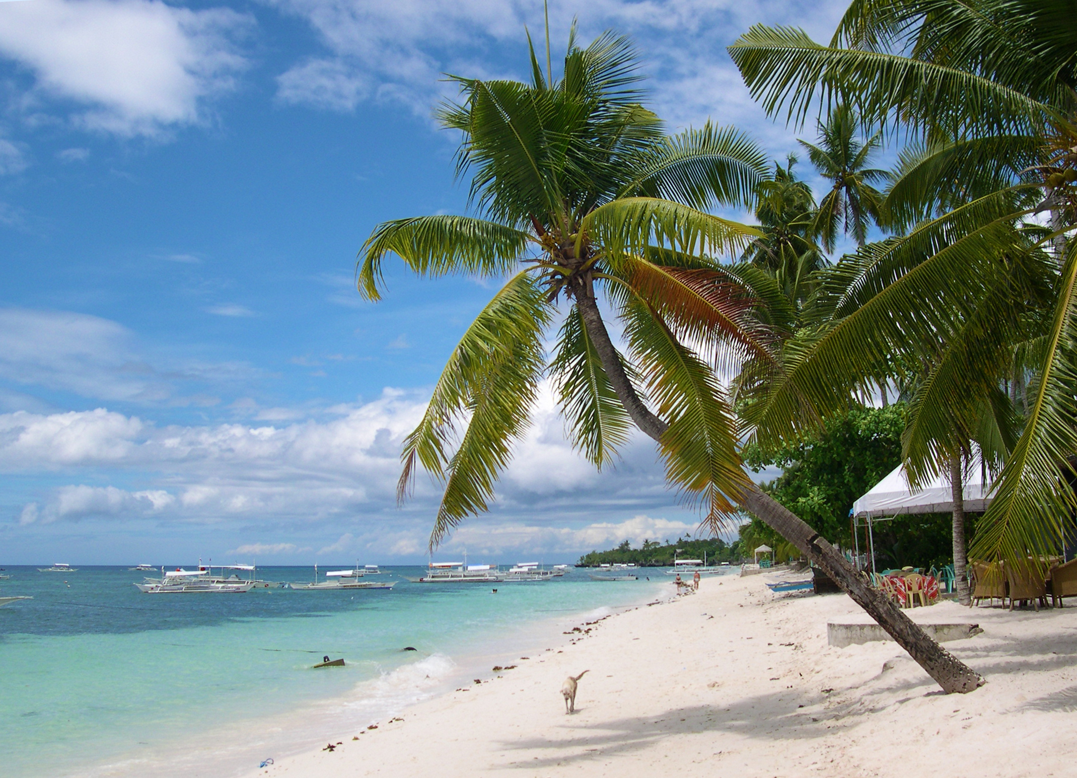 Alona beach on Panglao Island. Picture taken by Magalhães on March 25th 2006